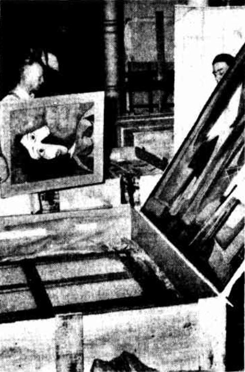 Text accompanying the picture: Workmen unpack a collection of French contemporary paintings at the National Art Gallery yesterday. The paintings, worth £100,000, arrived in Sydney in the freighter Adelong on Monday and will be on exhibition at the gallery for one month. The exhibition will be opened at 3 p.m. on Friday by the French Ambassador to Australia, M. Louis Roche.